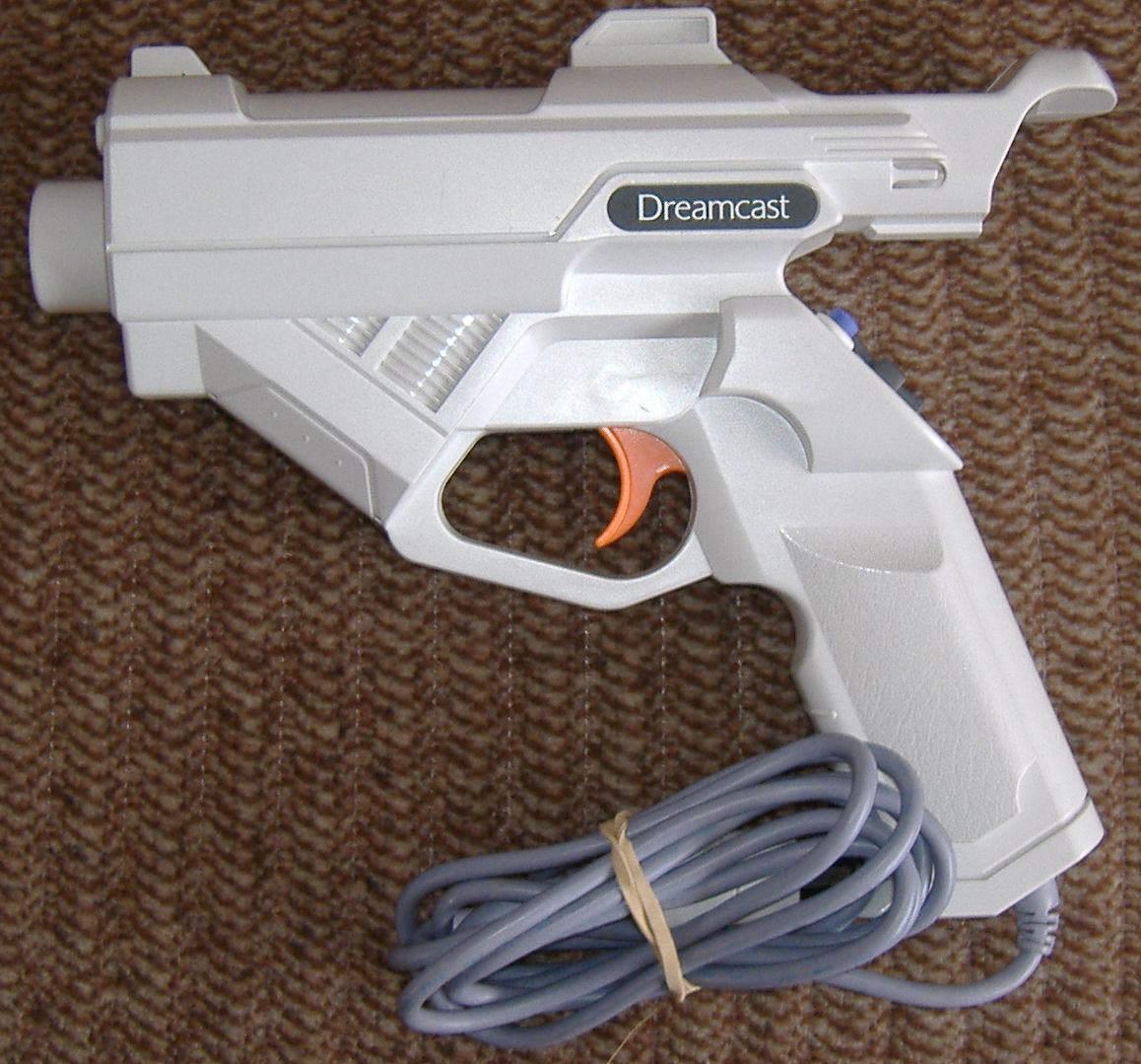 Dreamcast LightGun picture, taken by myself